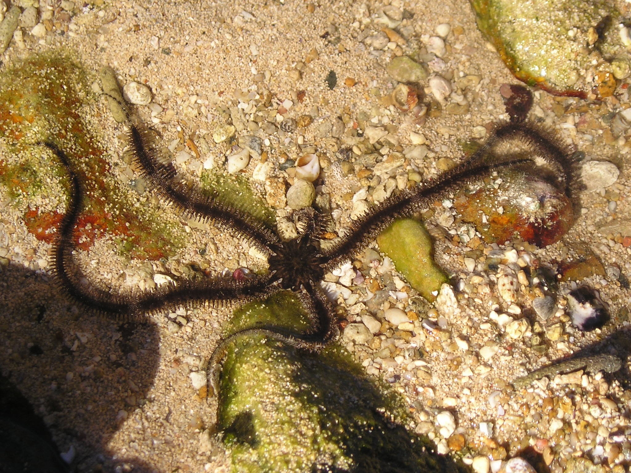 A sea star off Palm Island in Queensland, Australia. The original source of this image is Mr Luke Duyvestyn who took these photos himself on Palm Island, they were uploaded to YouTube (here: by Mr Duyvestyn's son, I User:WikiTownsvillian e-mailed Mr Duyvestyn (original contact made through e-mailing his son) who agreed to grant permission under the GNU Free Documentation License, a copy of my e-mail and the response I received back have been sent to permissions-en AT wikimedia DOT org. statement I received: I own the copyright to the images mentioned in your email letter. I grant permission to copy, distribute and/or modify this document under the terms of the GNU Free Documentation License, Version 1.2 or any later version published by the Free Software Foundation; with no Invariant Sections, no Front-Cover Texts, and no Back-Cover Texts. Please notify me when you post the photo's as I would like to see the page with them in use. Thanks